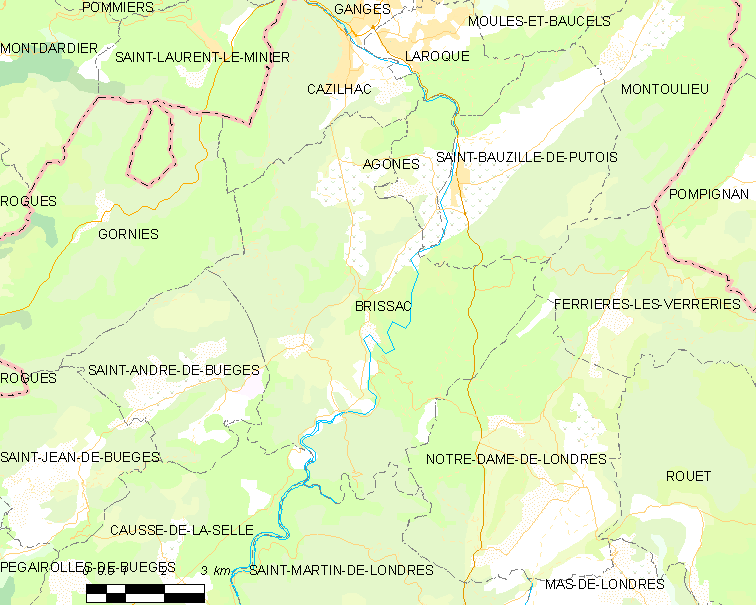 Map commune FR insee code 34042.png - Brissac